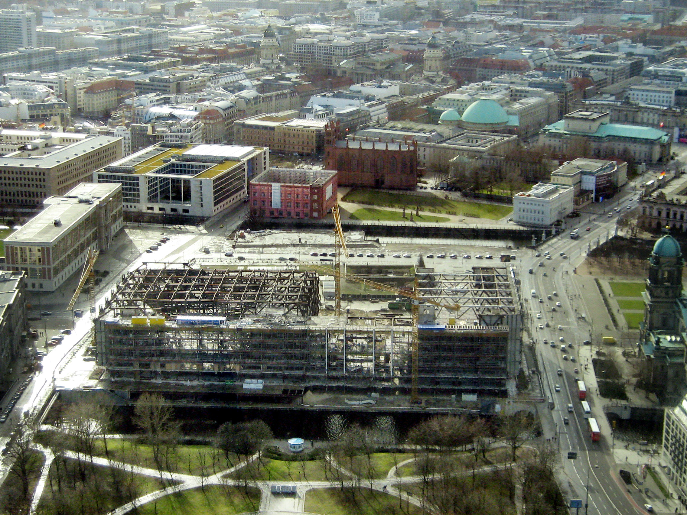 Germany, Berlin: View from TV-Tower Berlin (Fernsehturm) to demolition of the Palast der Republik.